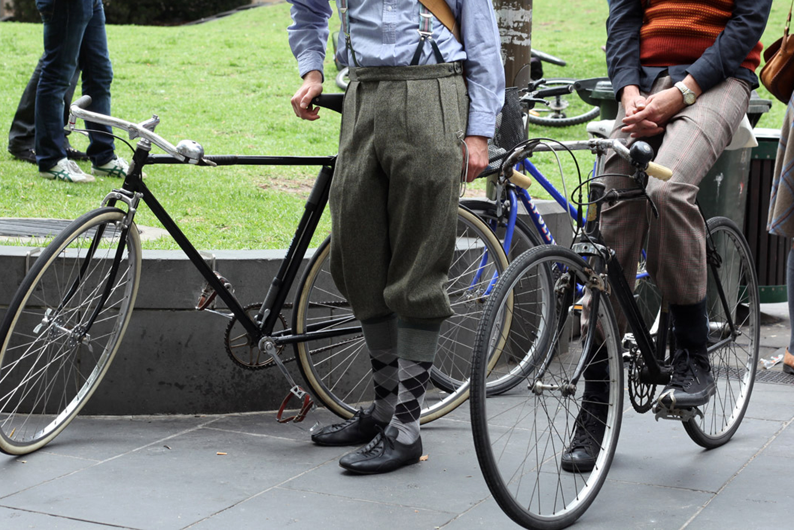 Tweed Knickerbockers License on Flickr (2011-01-25): CC-BY-SA-2.0 Flickr tags: melbourne, victoria, australia, bicycle, film, festival, tweed, ride